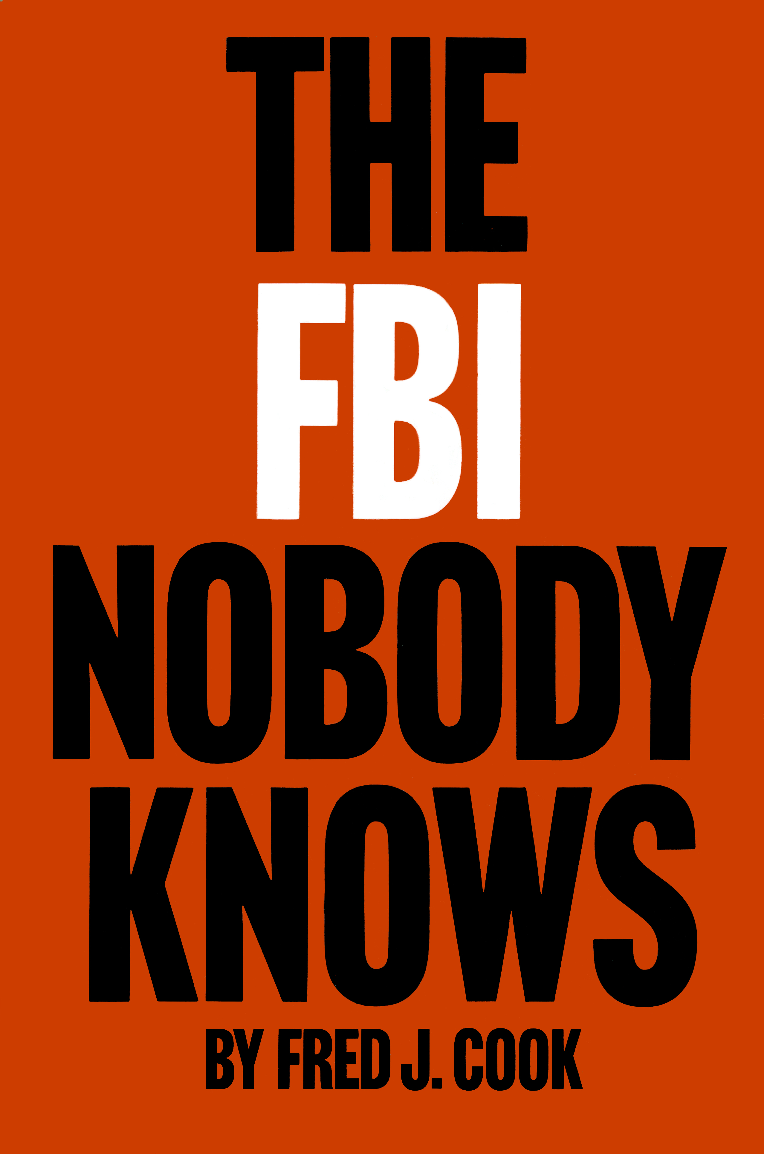 Front cover of the dust jacket for the first edition of The FBI Nobody Knows (1964) by Fred J. Cook